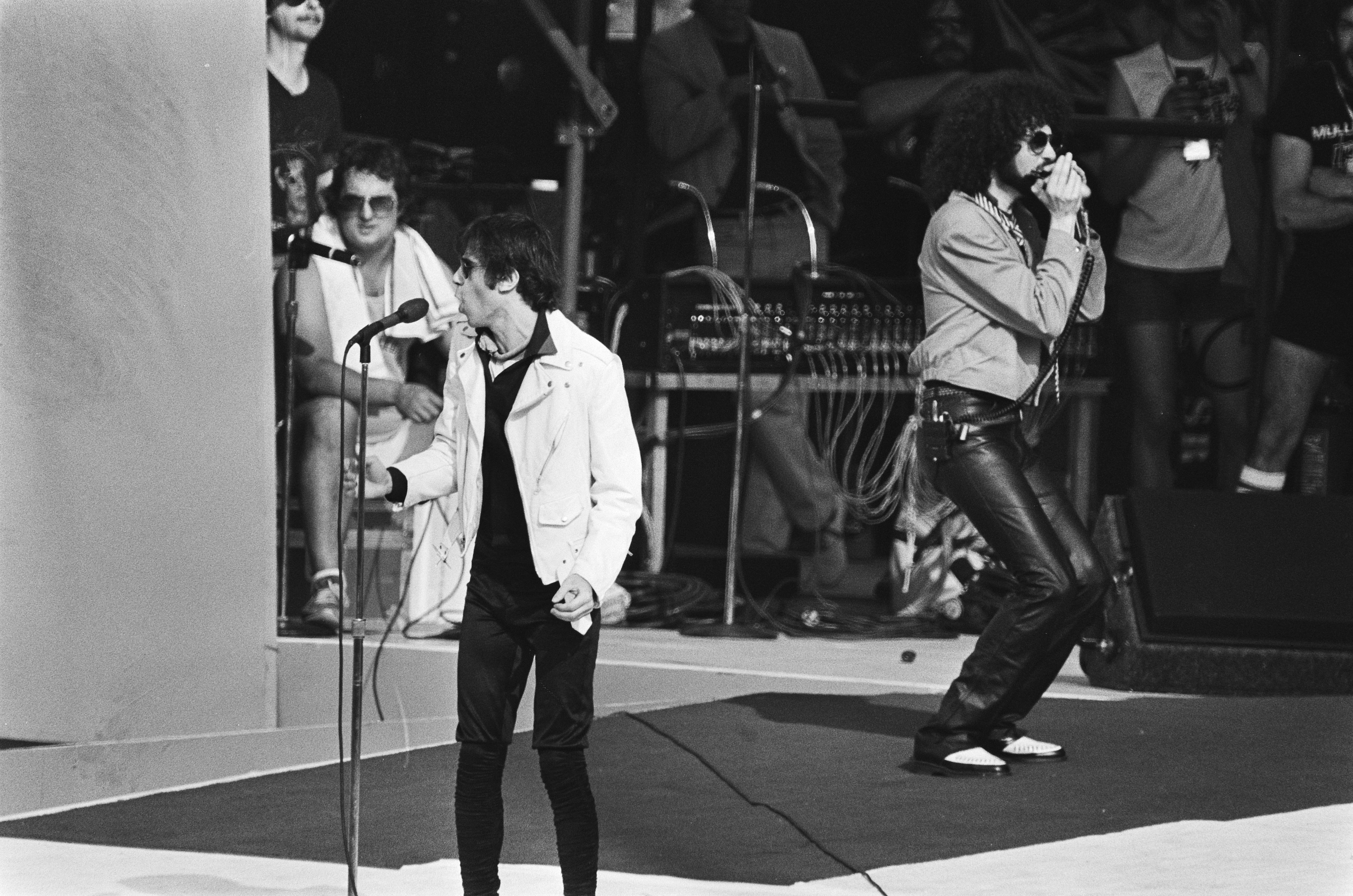 Peter Wolf and Magic Dick performing during a concert of the J. Geils Band in Rotterdam (the Netherlands), June 1982